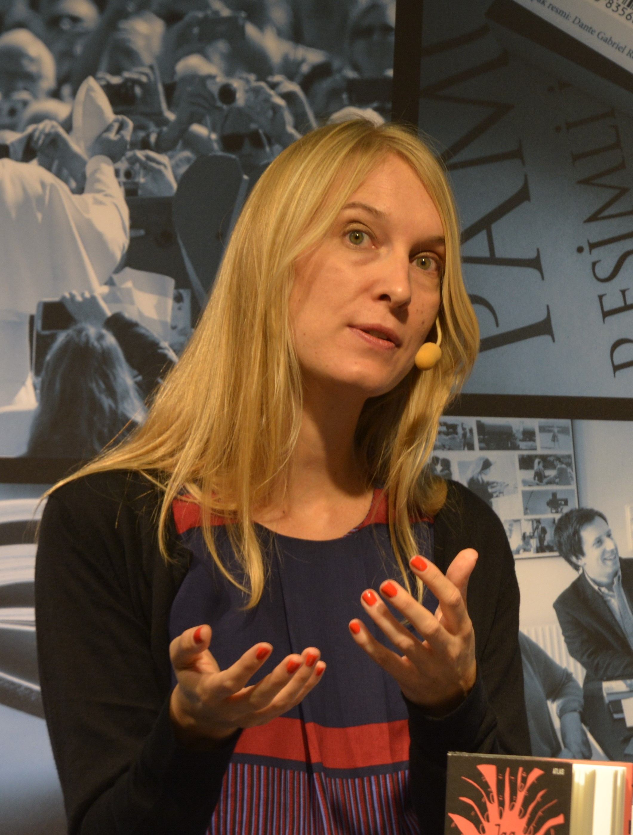 Lina Kalmteg på Bokmässan 2016